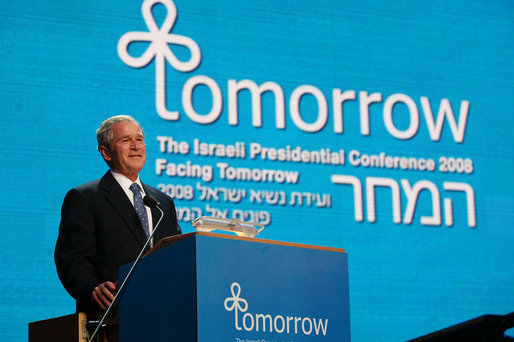 President George W. Bush addresses his remarks during the Israeli Presidential Conference 2008 at the Jerusalem International Convention Center in Jerusalem, Wednesday, May 14, 2008, in celebration of nation's 60th anniversary. White House photo by Joyce N. Boghosian